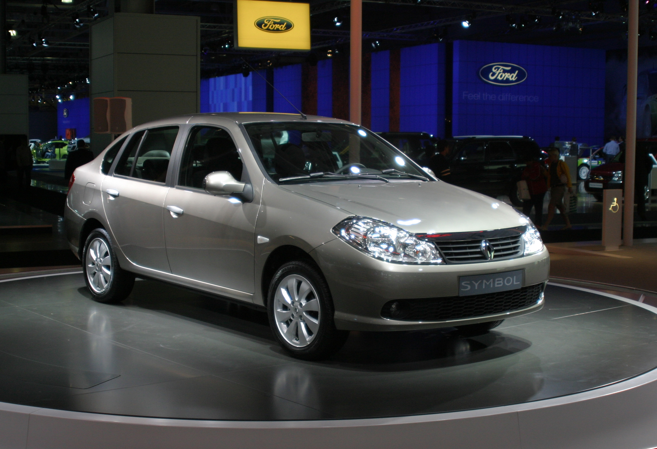 New Renault Symbol debuts at Moscow International Autoshow, 26 august 2008